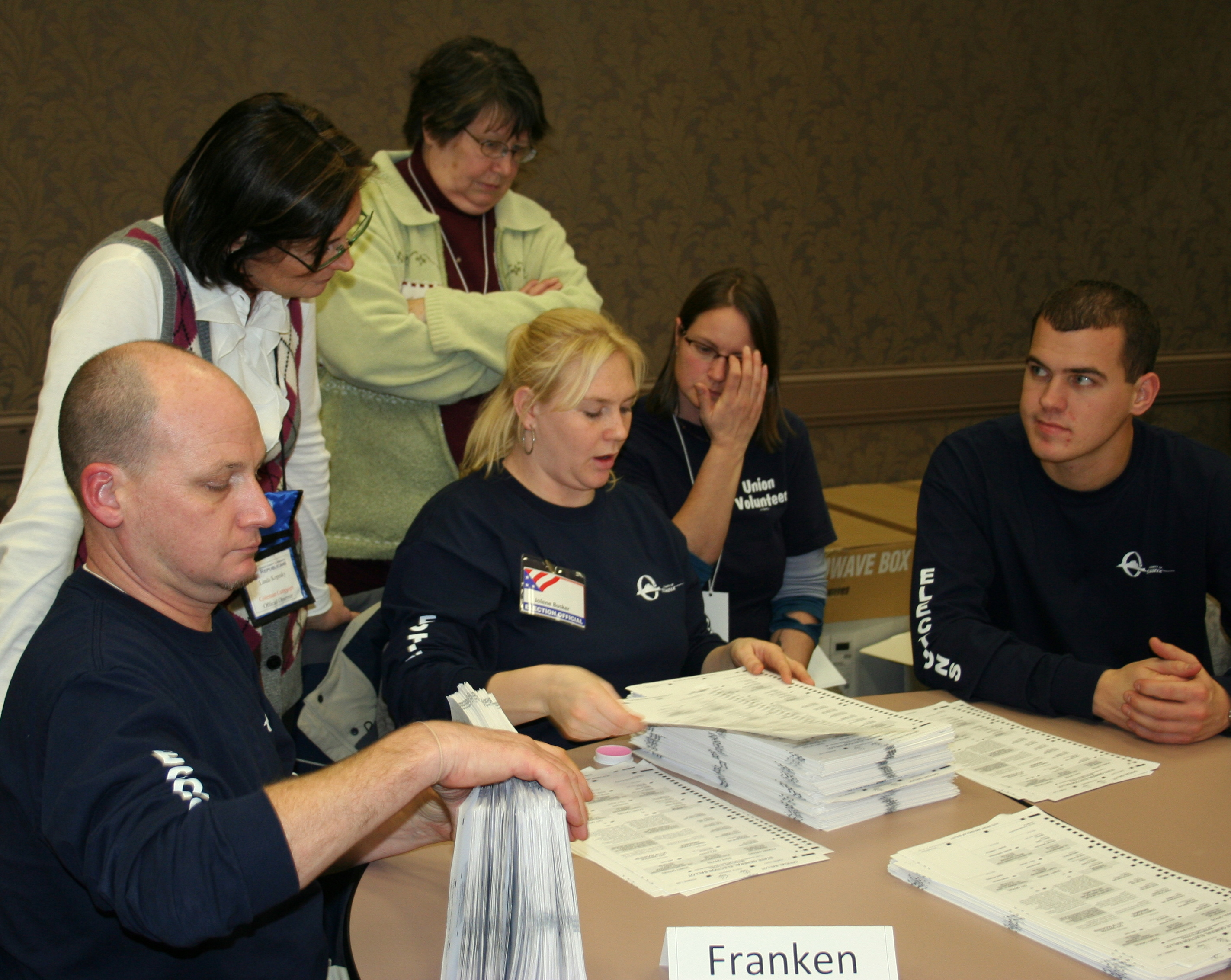 2008 United States senatorial election ballot recount in Olmsted County, Minnesota